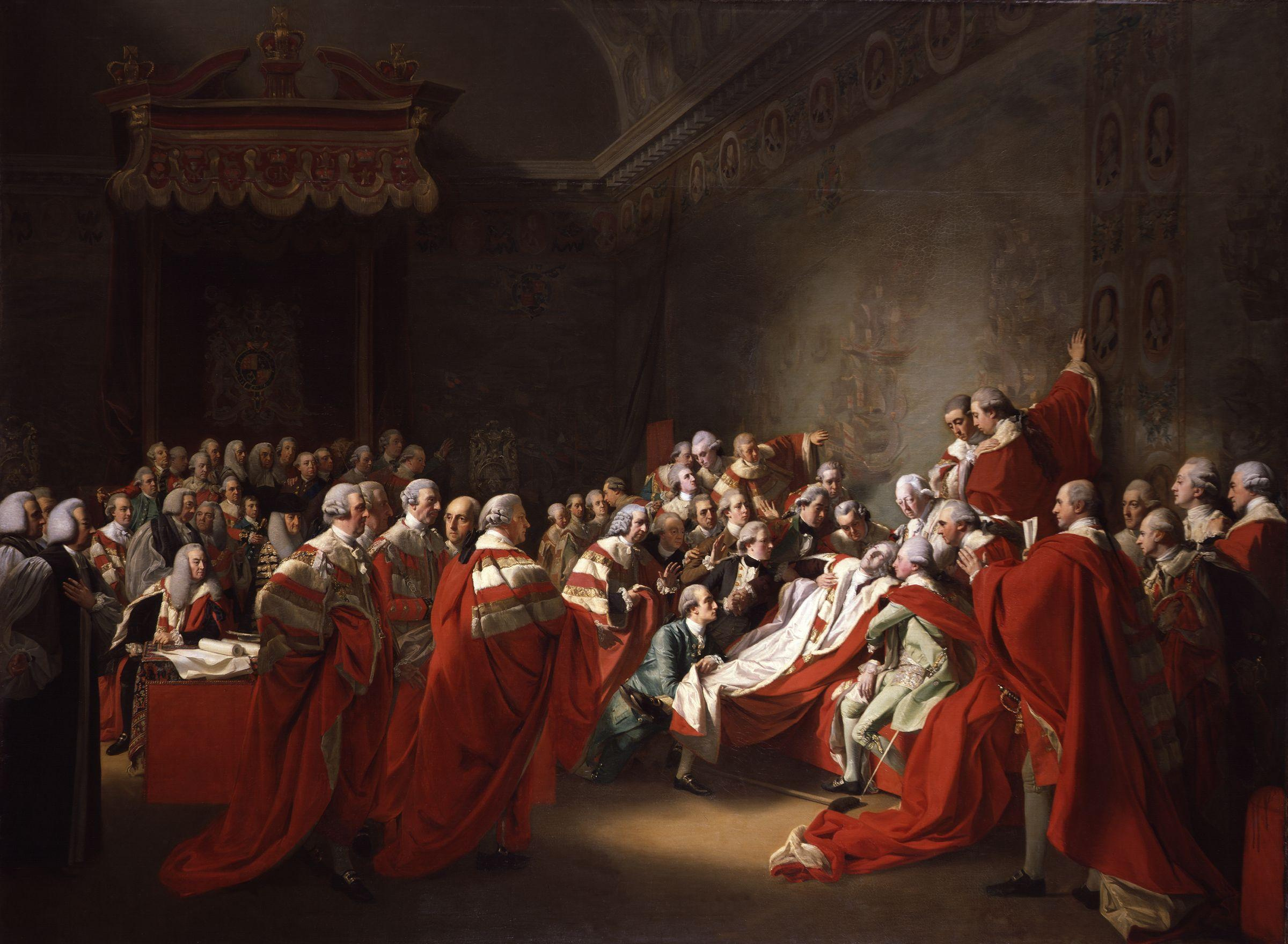 All images in this batch have been confirmed as author died before 1939 according to the official death date listed by the NPG.